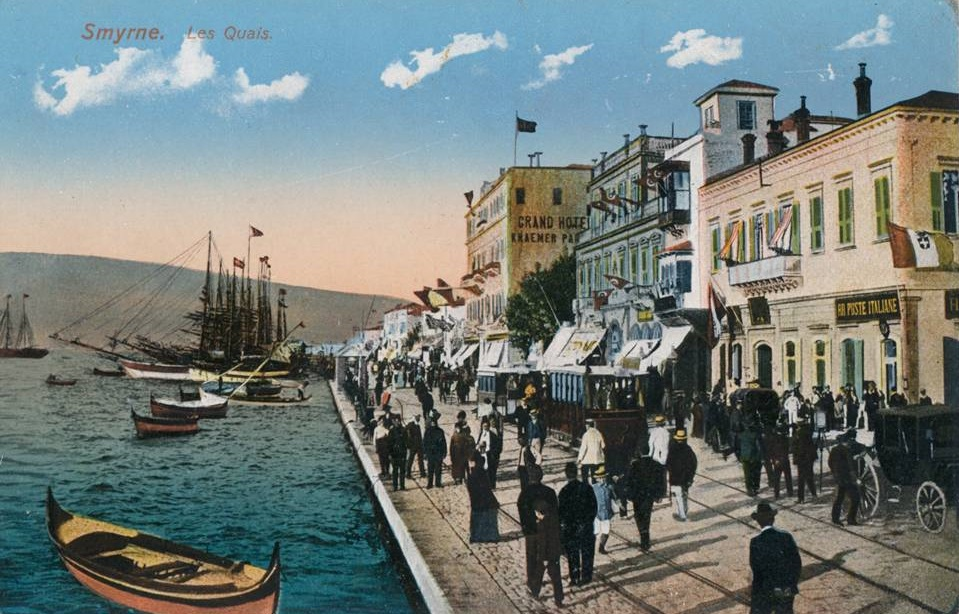 The cosmopolitan, well-heeled Smyrna wharf (popularly called le Cordon) before WWI. On the far right, the Italian flag is seen flying next to the Italian post office. Postcard from c. 1910.